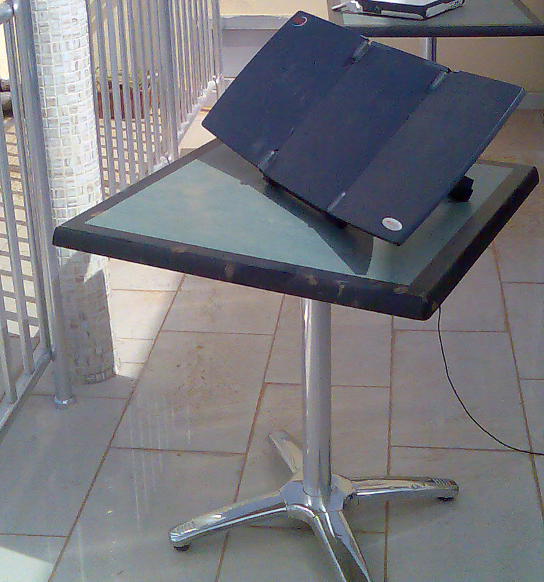 Photograph showing front of Nera Satellite Phone Antenna pointing across Noakchott, Mauritania